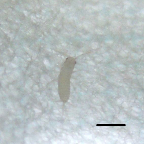 A nymph of Ctenolepisma villosa (day 0). Scale: 1mm